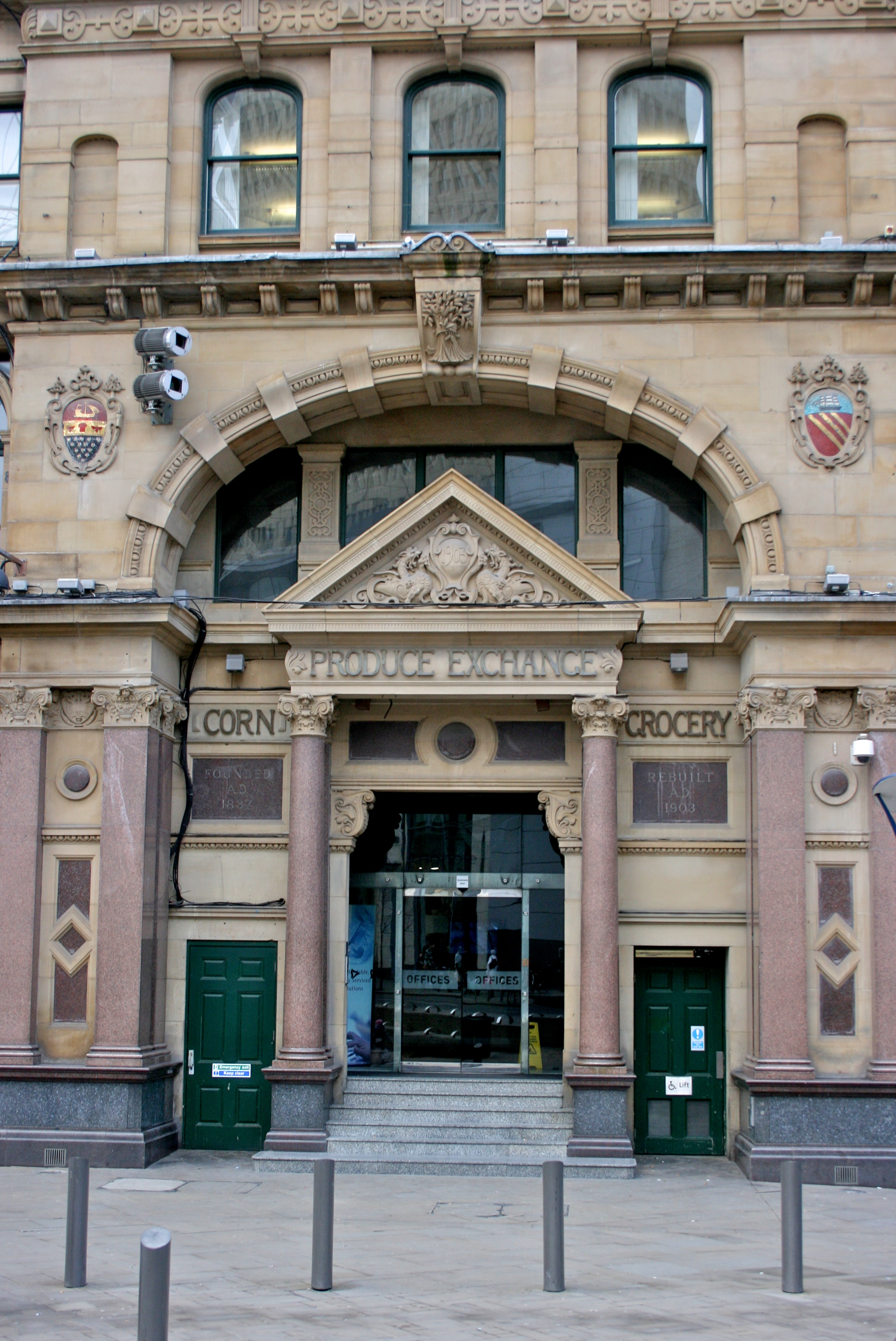 The old Produce Exchange. Manchester.